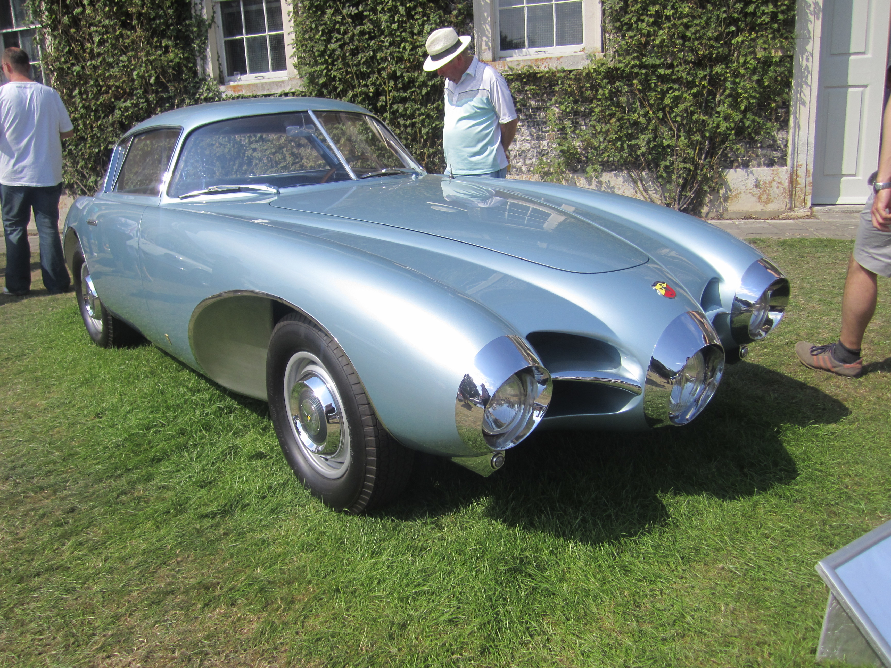 Taken at the Goodwood Festival of Speed England 2011-Cartier Style Et Luxe Concours D'elegance